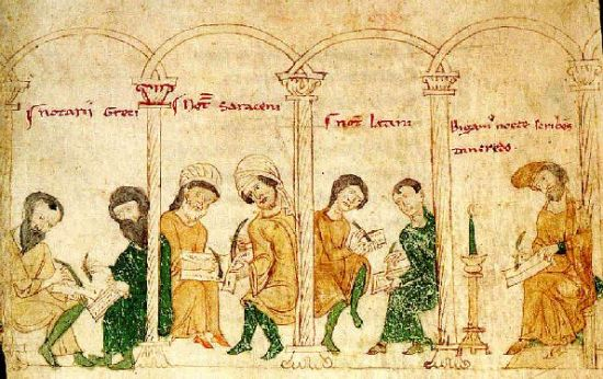 Scribes of the diverse population of the Kingdom of Sicily from the late 12th century - Liber ad honorem Augusti of Peter of Eboli / Petrus de Ebulo